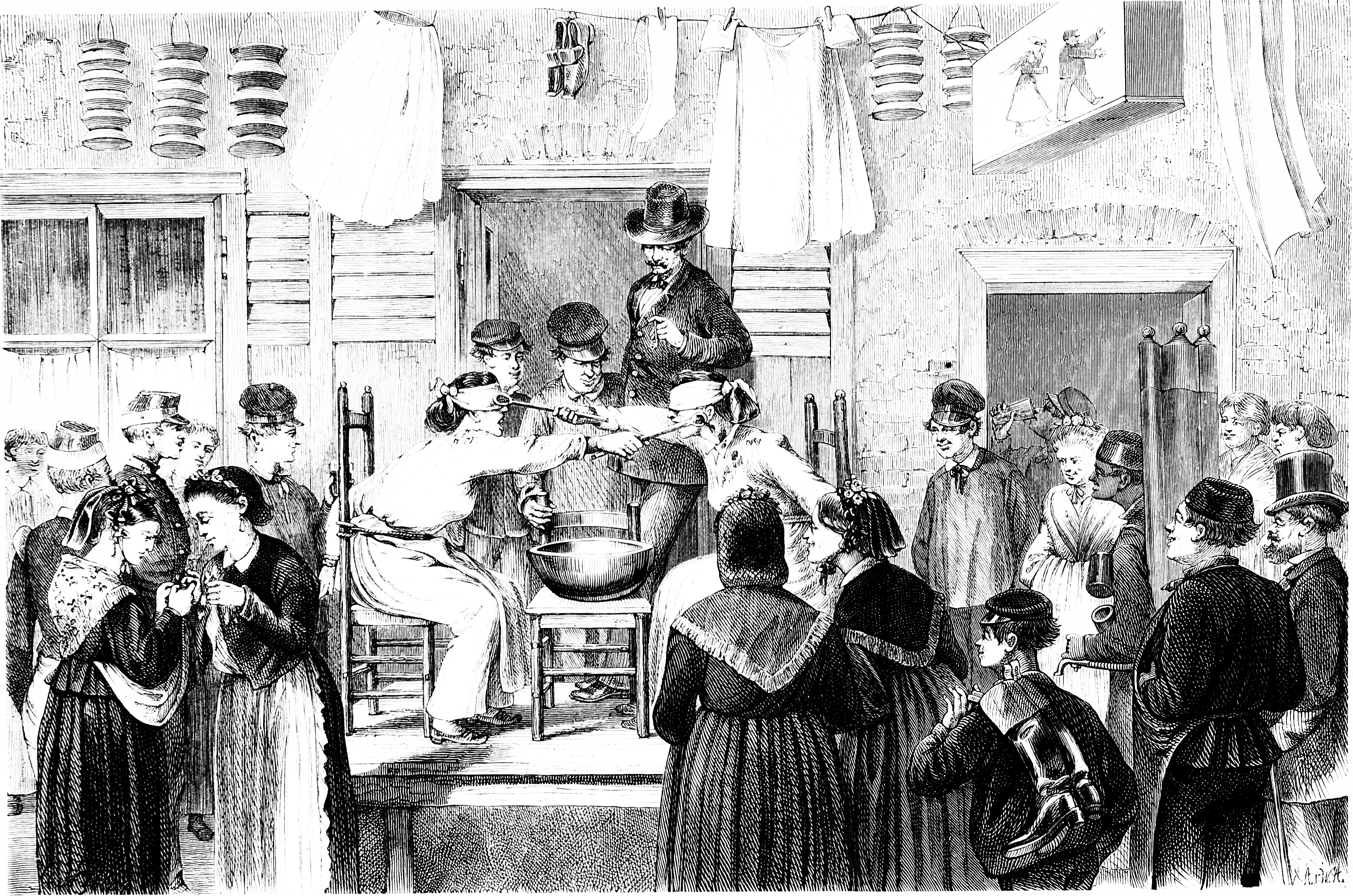 caption: "Der Breikampf im Marollen-Viertel in Brüssel.Nach der Natur aufgenommen von L. von Elliot."